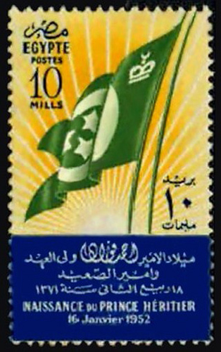 Birt of Prince Ahmed Fouad I 16-1-1952